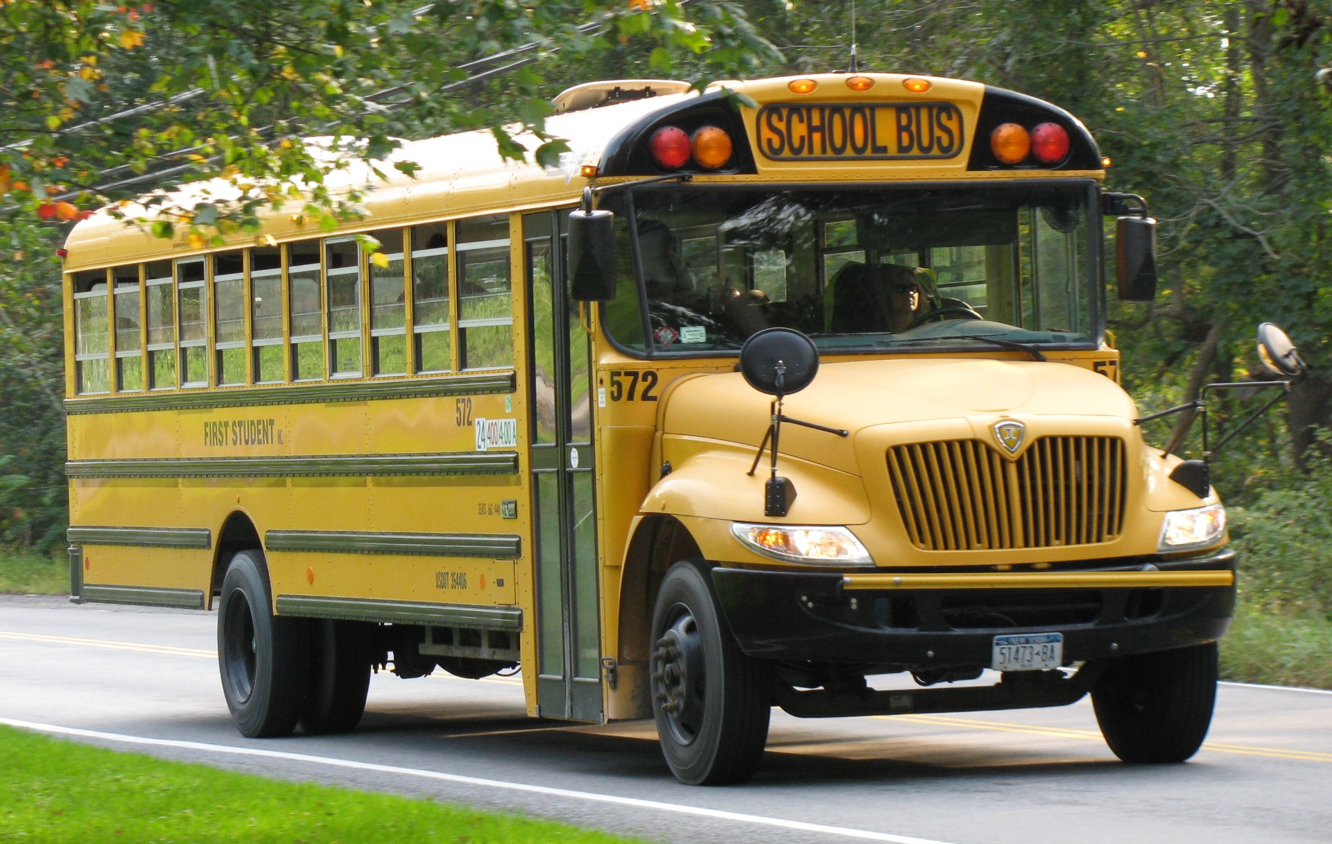 2006 IC CE200 (Former Pine Bush #561) First Student #060561